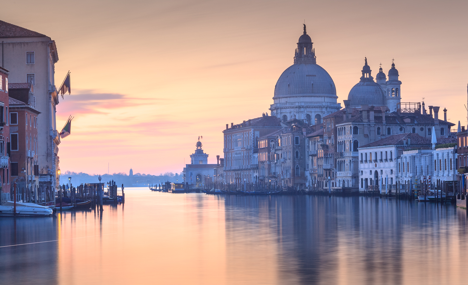 Grand Canal in Venice as pictured on the early hours of April morning